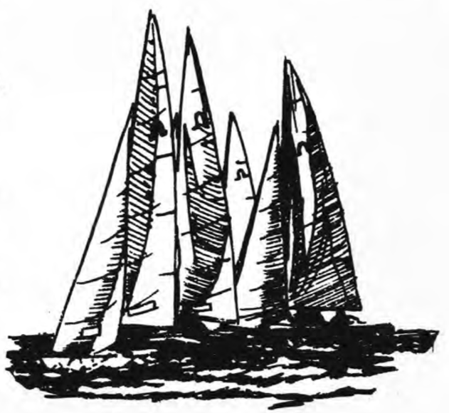 Soling Australian Championship 1986-97 Drawing